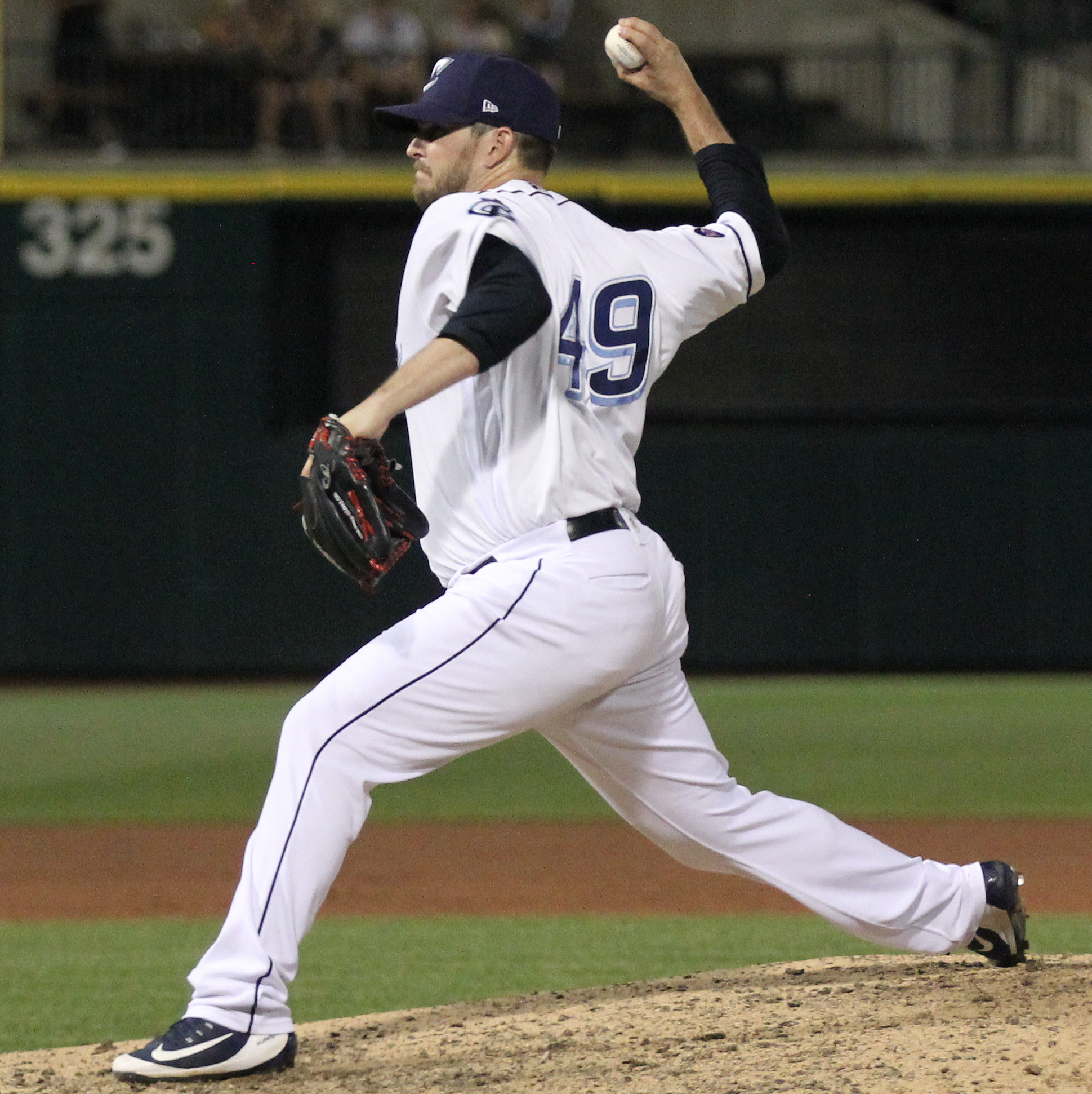 Evan Marshall delivers a pitch for the Columbus Clippers during a 2018 game at Huntington Park in Columbus, Ohio